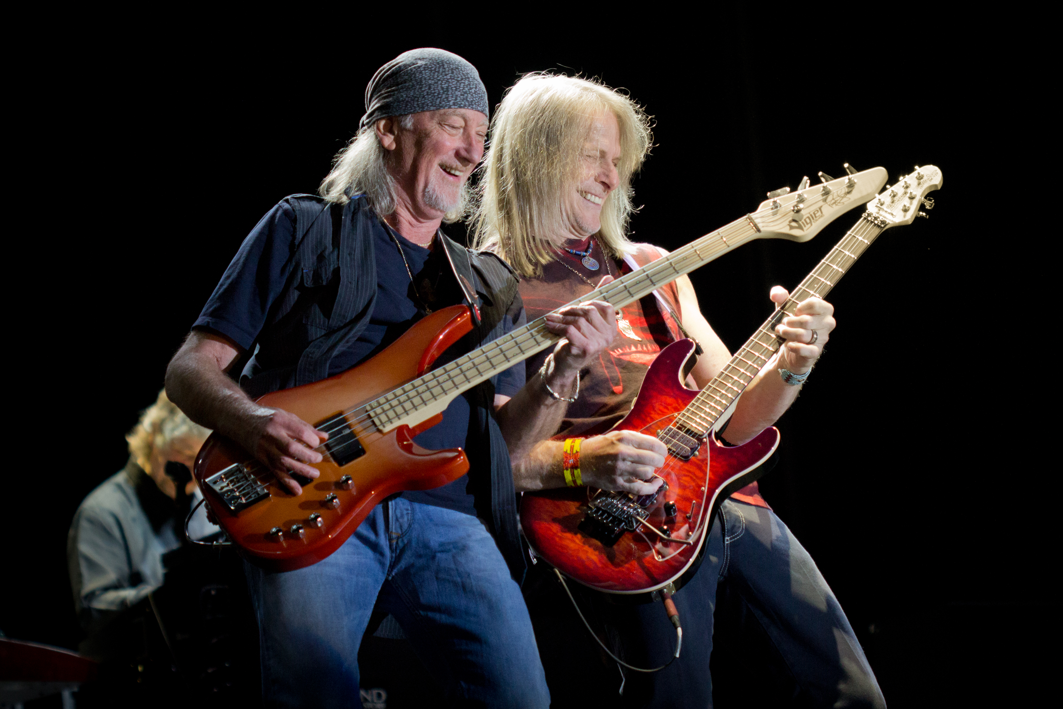 Deep Purple performing at Músicos en la naturaleza 2013 in Hoyos del Espino, Ávila, Spain.